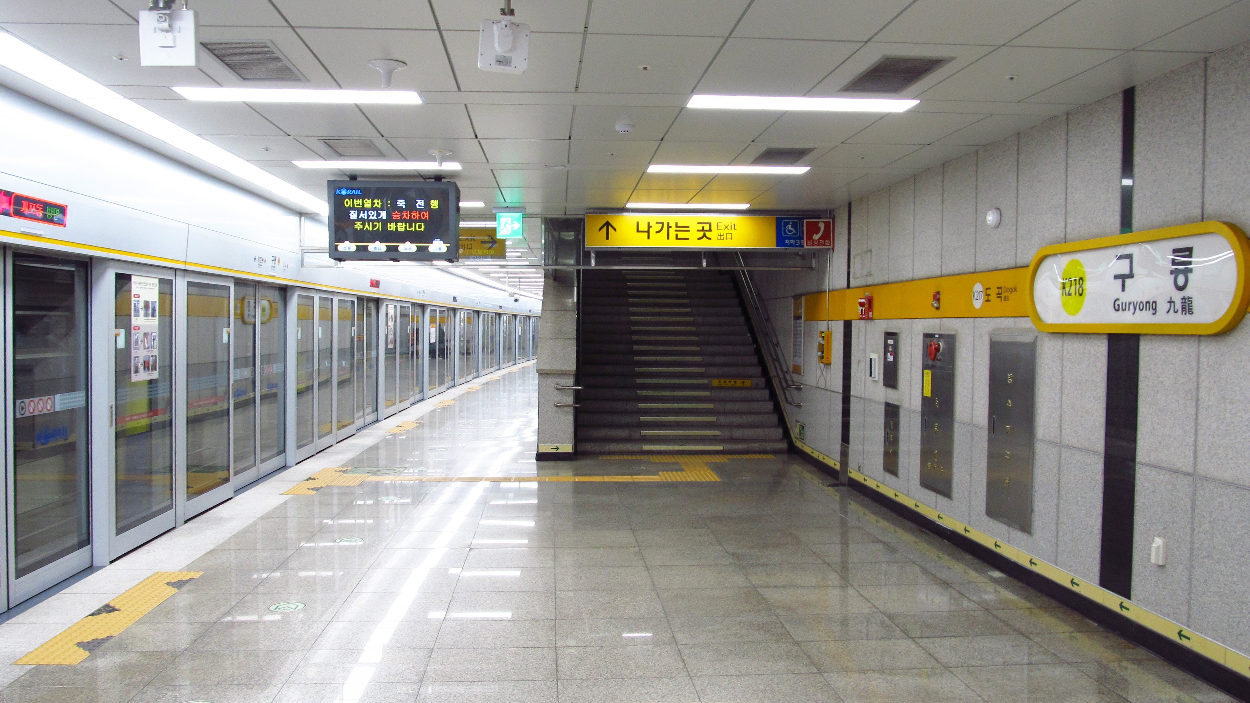 The platform at Guryong Station on Bundang Line in Gangnam-gu, Seoul, Republic of Korea(South Korea)